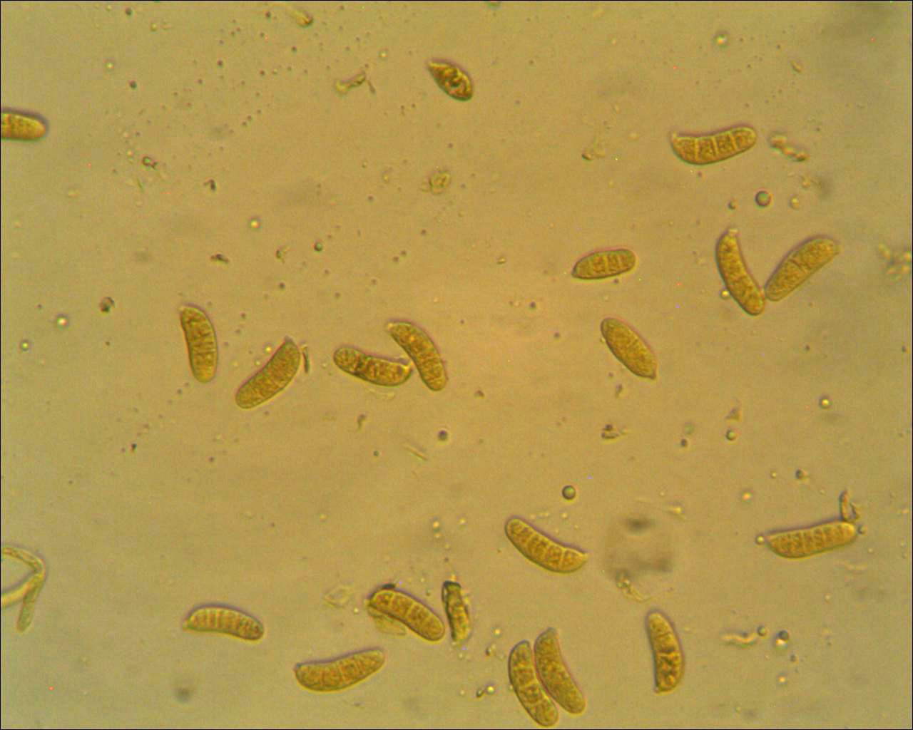 Dacrymyces variisporus McNabb Image location: Kelley Point Park, Portland, Oregon, USA Jelly blobs, ~1 mm. On madrone branch. [Kelley Point Mycoblitz] For more information about this, see the observation page at Mushroom Observer.